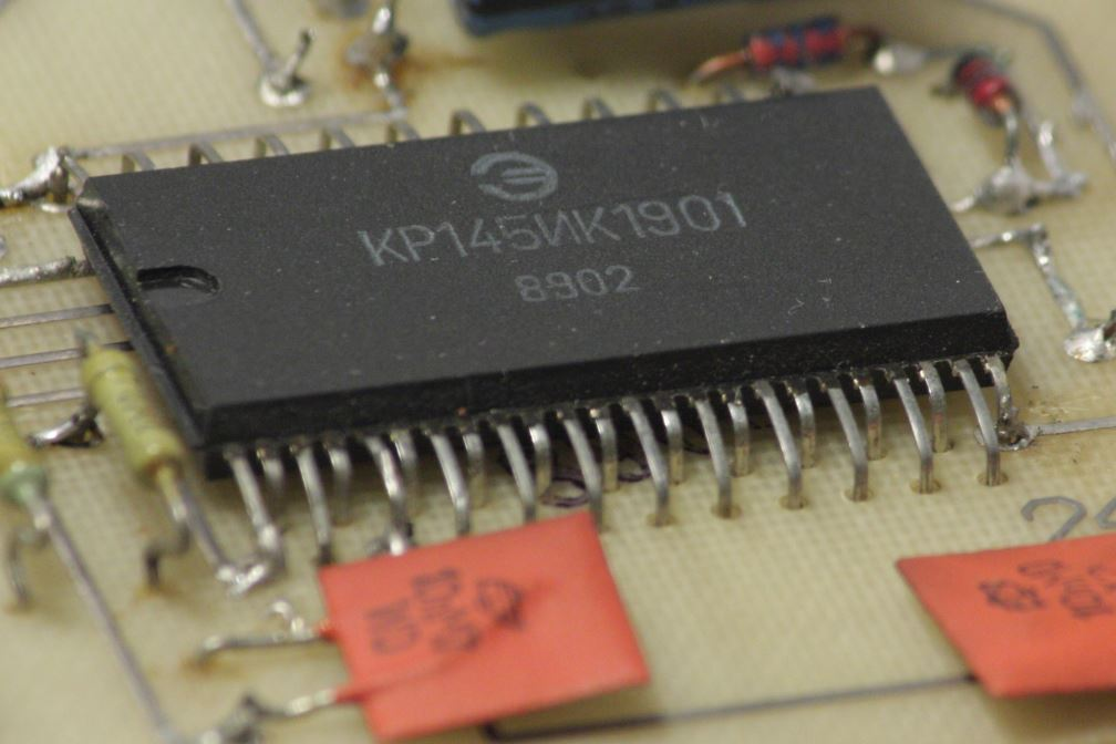 USSR integrated circuit KR145IK1901